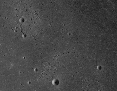 Small craters Charles (upper left corner), Mavis (below Charles), and Annegrit (lower right corner), north of Mons La Hire, Mare Imbrium, on the moon. The largest crater at bottom center is unnamed. Camera Altitude is 106 km, Sun Elevation is 24° (from right).